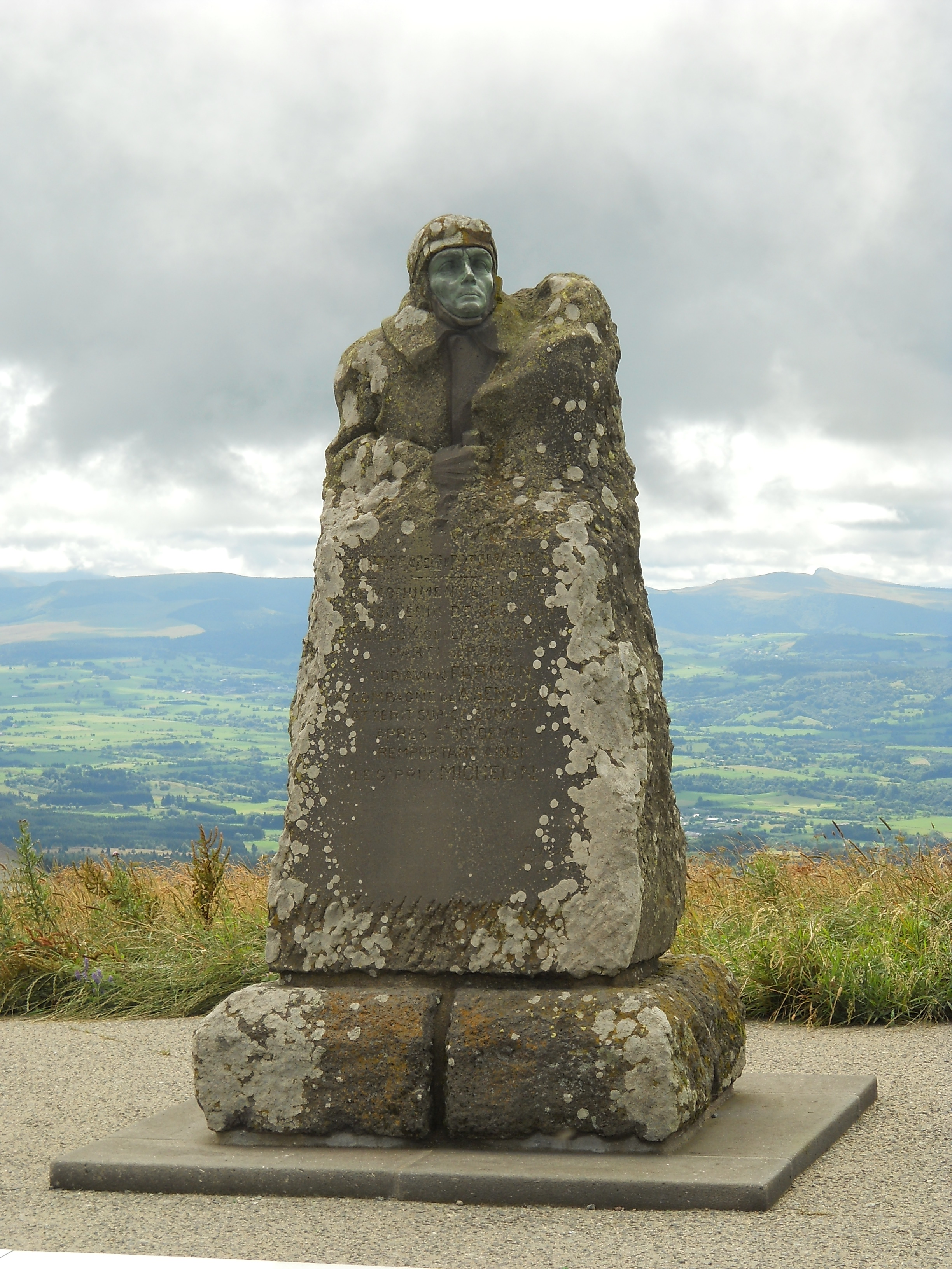 Monument to Eugène Renaud, summit of Puy-de-Dôme, Auvergne, France